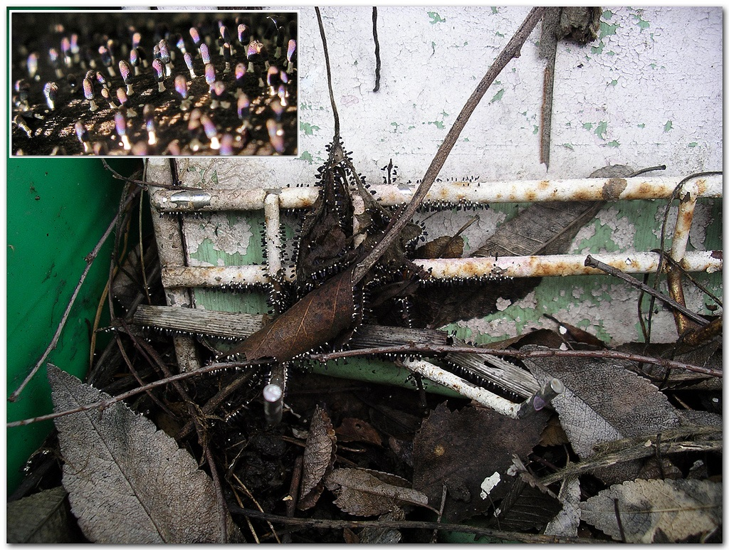 Diachea leucopodia: a slime mold : photograph taken by me in Berkeley CA